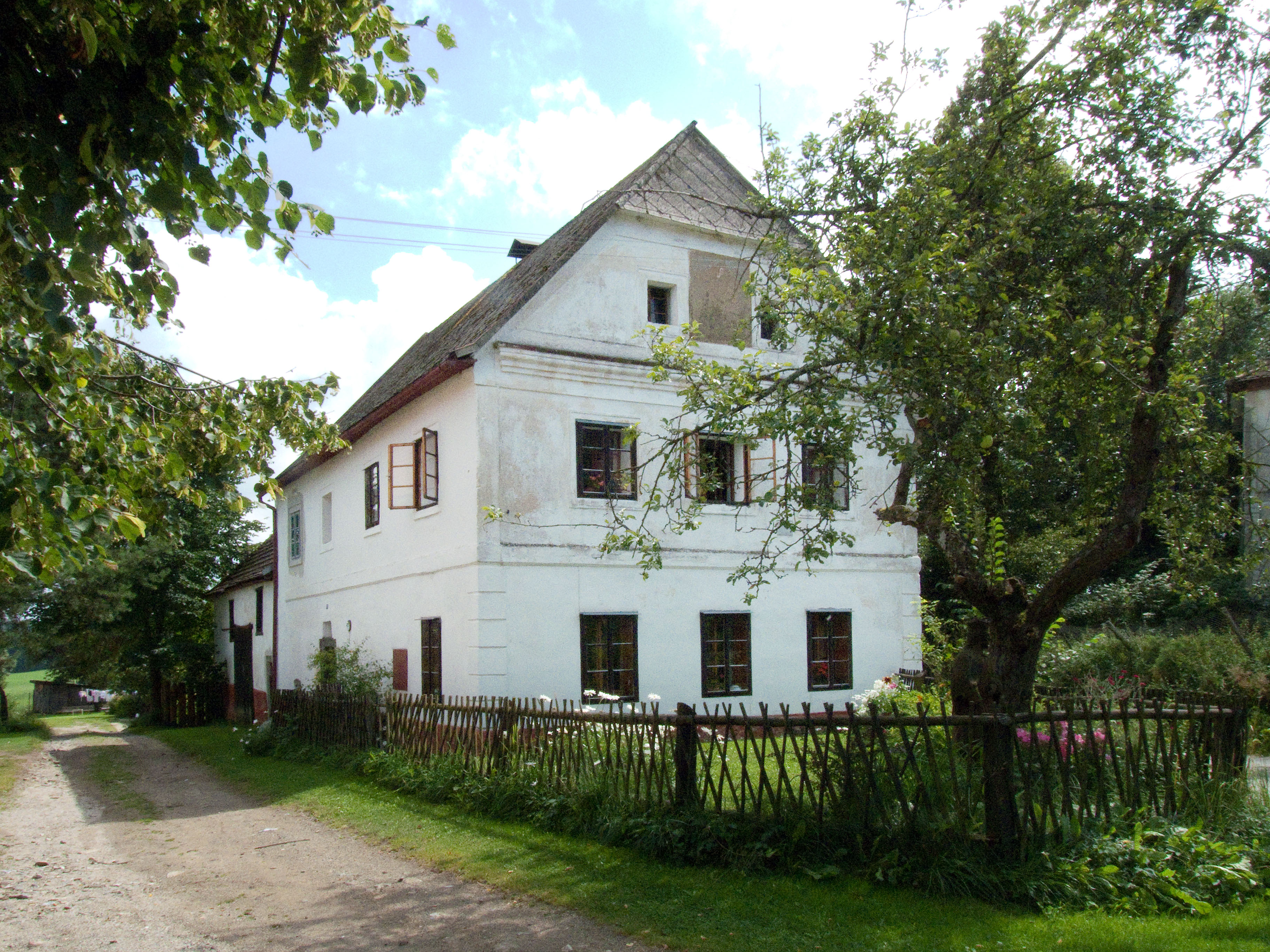 House No 18 in Hodňov, Český Krumlov district, Czech Republic